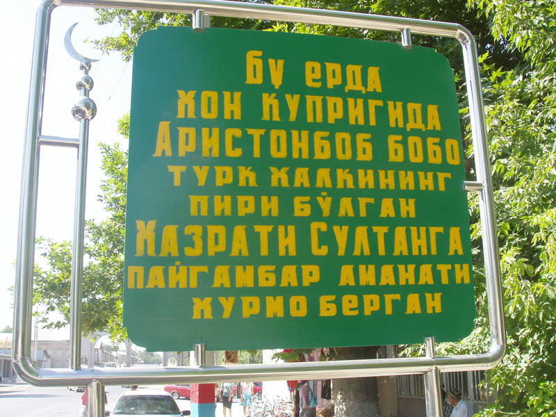 This is a picture I [Michael Hancock] took of the sign that stands in Sayram, Kazakhstan, commemorating the local legend regarding Ahmed Yasavi and Arslan Baba.